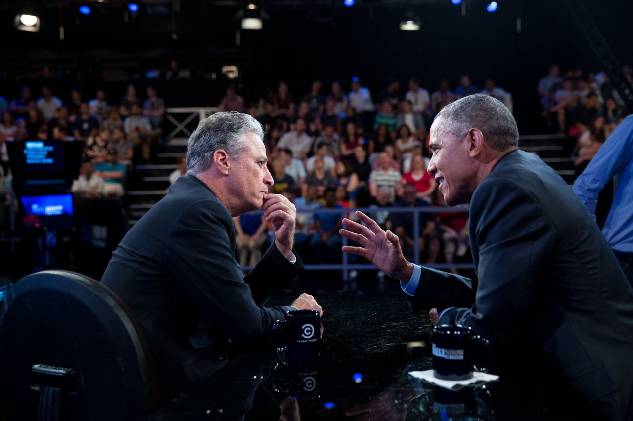 President Barack Obama talks with Jon Stewart between segments of The Daily Show with Jon Stewart in New York, N.Y., July 21, 2015